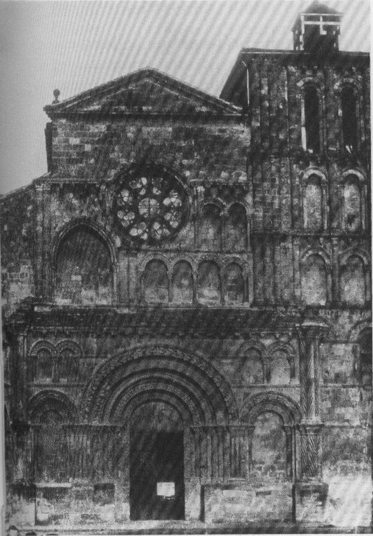 Churche Ste-Croix of Bordeaux